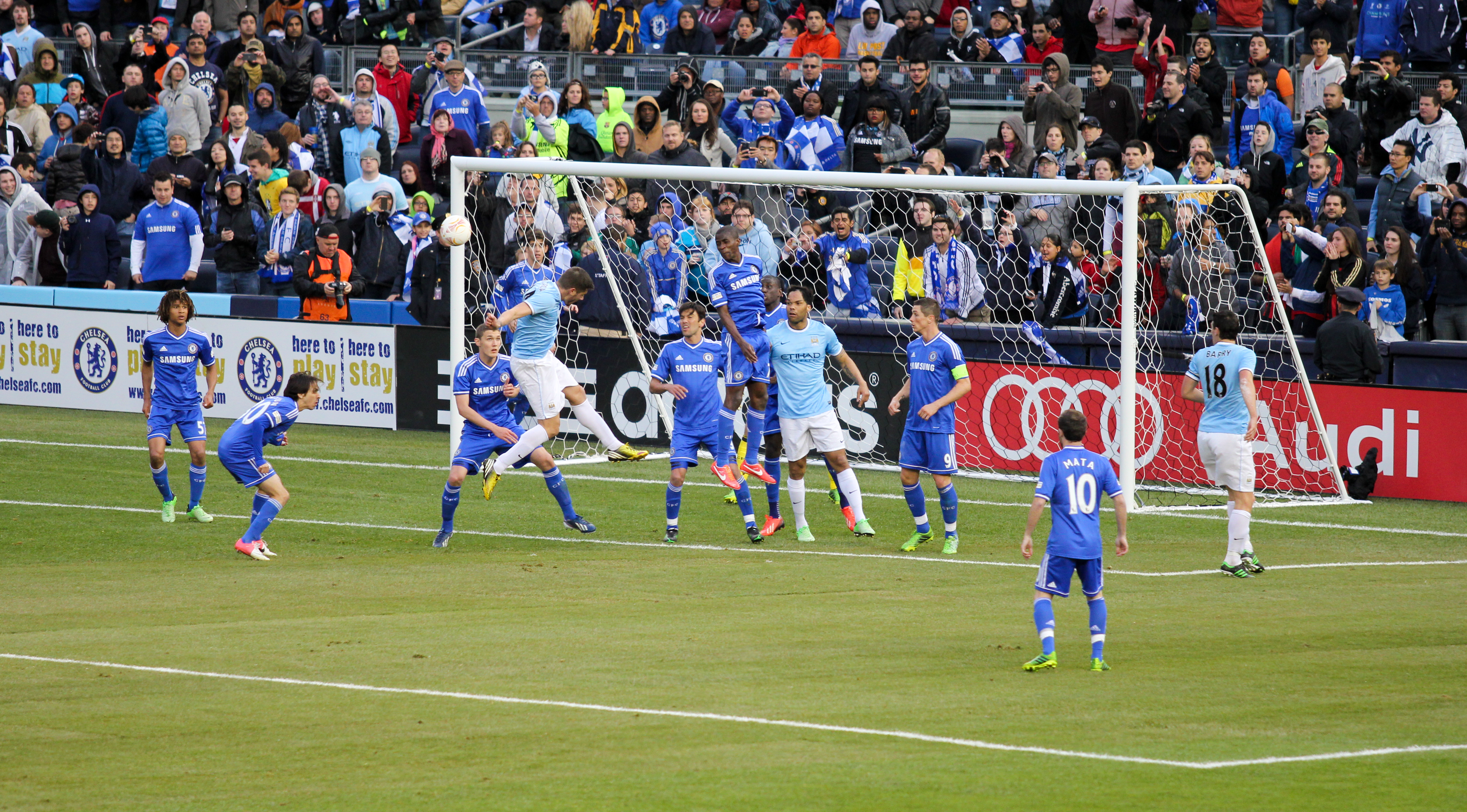 Chelsea FC defending corner during friendly match on Yankee Stadium against Manchester City.